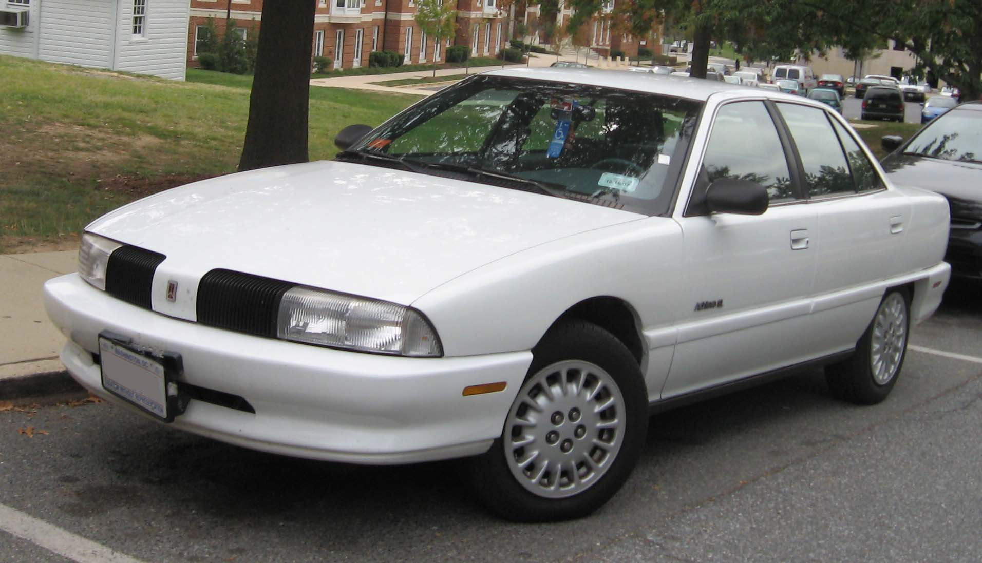 Oldsmobile Achieva photographed in College Park, Maryland, USA.